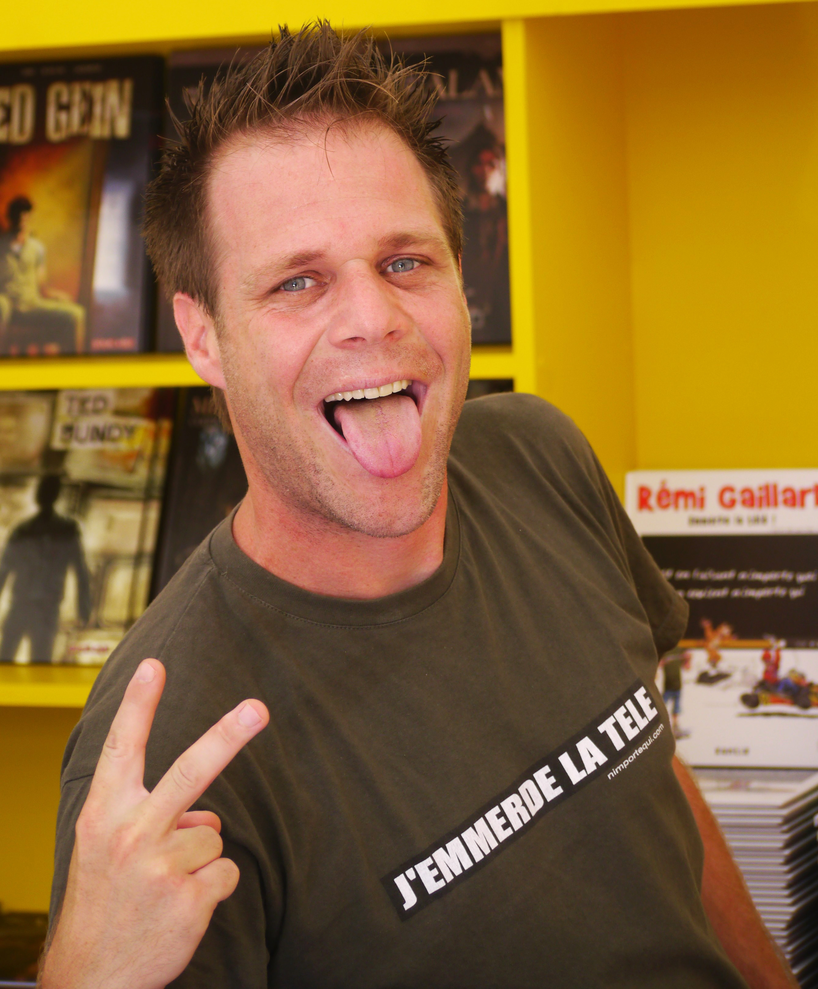 Comic Strip Festival of Montpellier - O Tour de la Bulle 2011